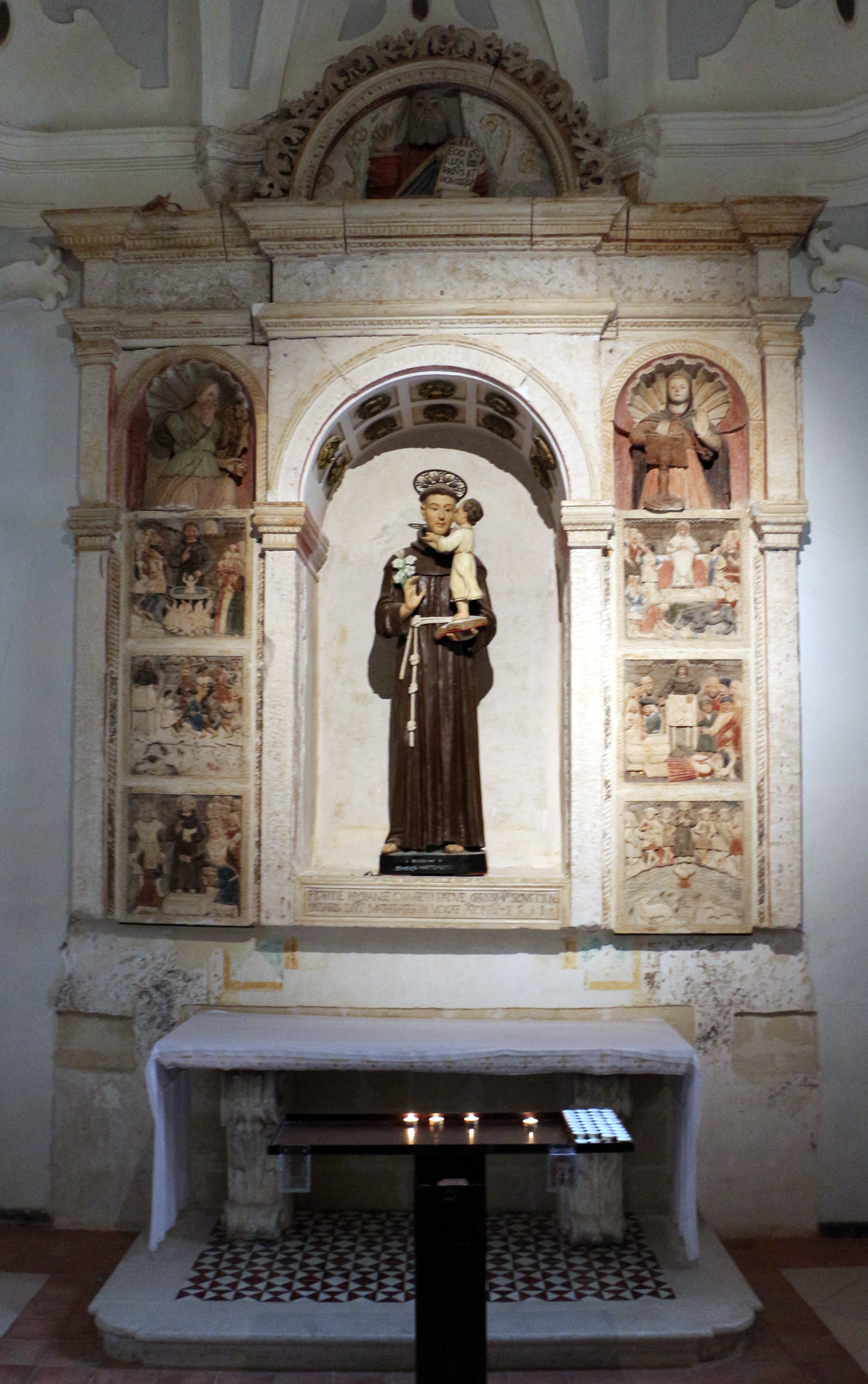 San Pietro Caveoso (Matera)